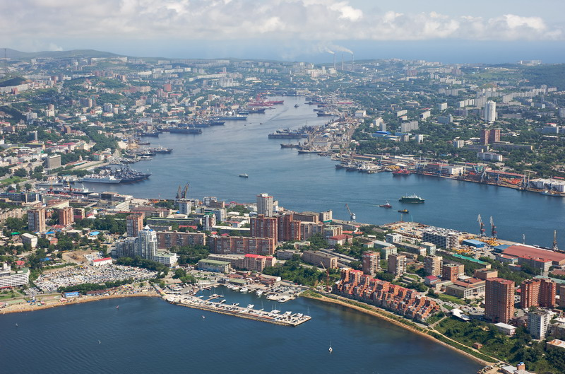 Golden Horn